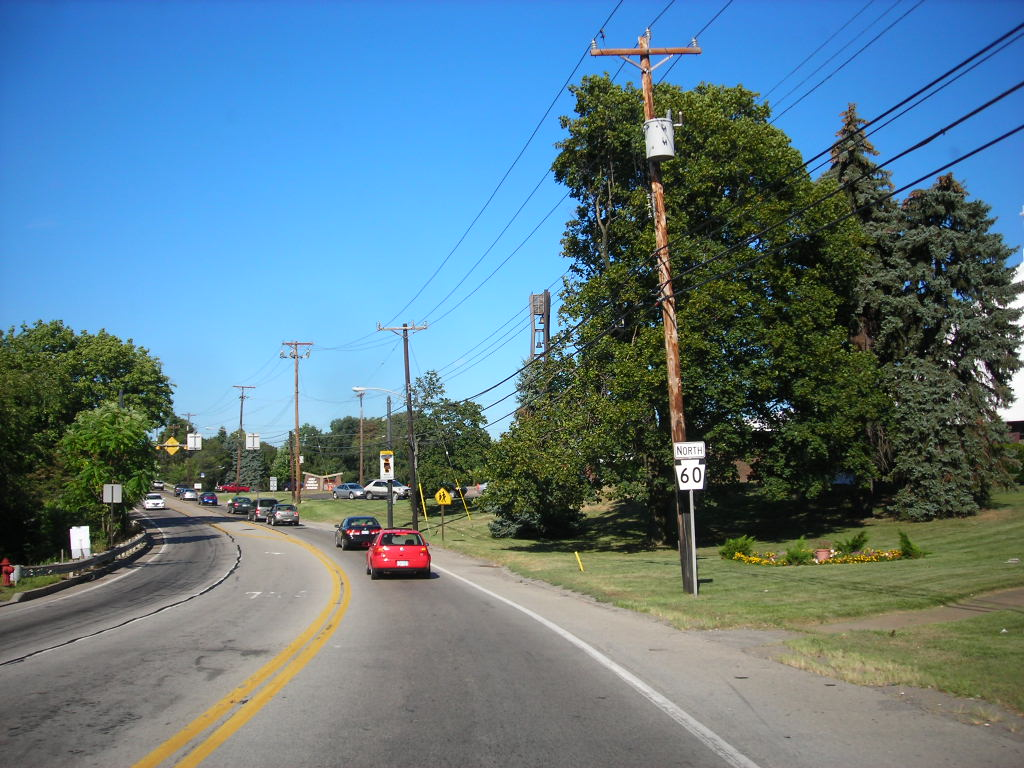 Northbound on Pennsylvania Route 60 in Robinson Township.